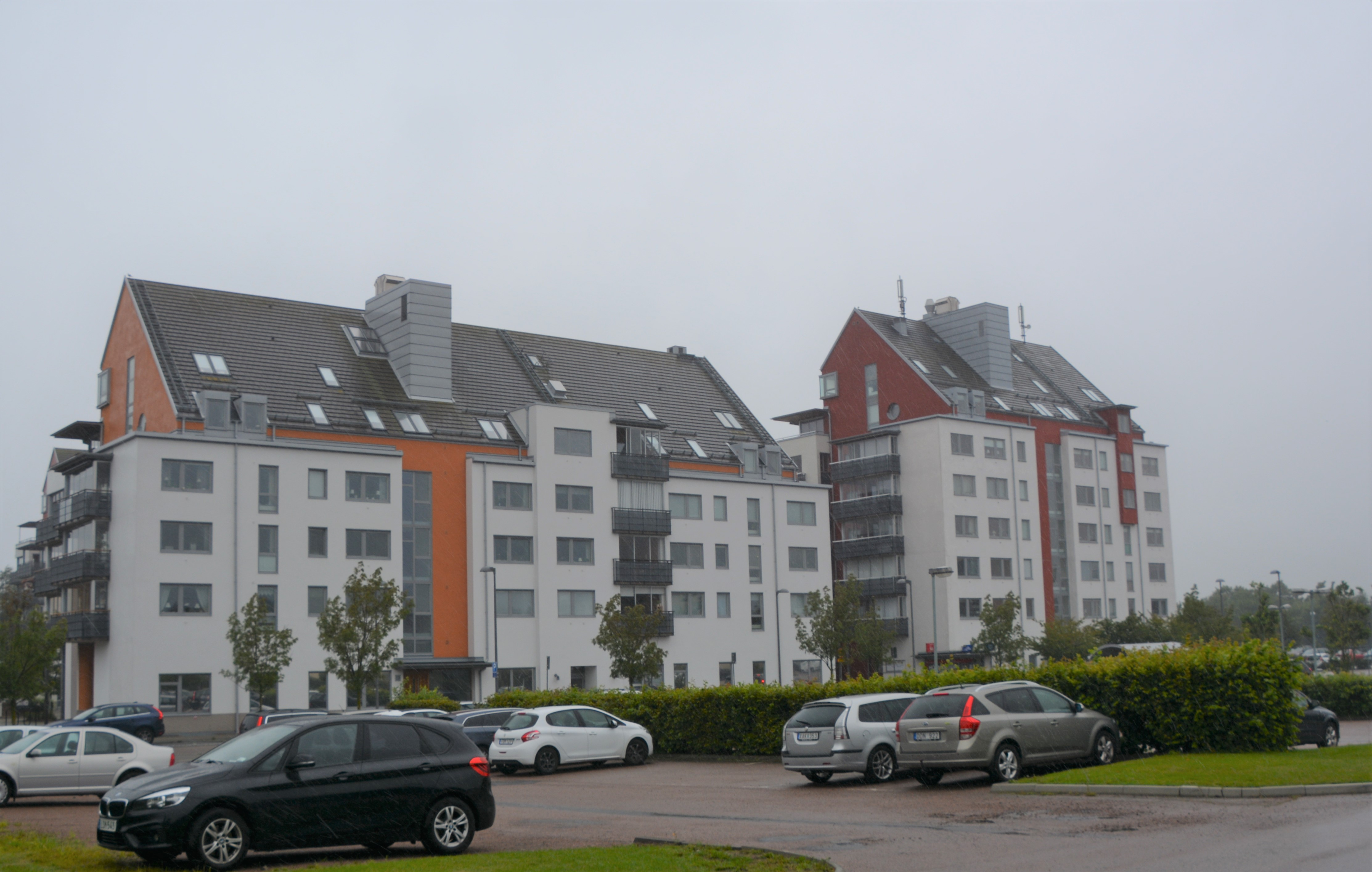 Rydebäcks centrum